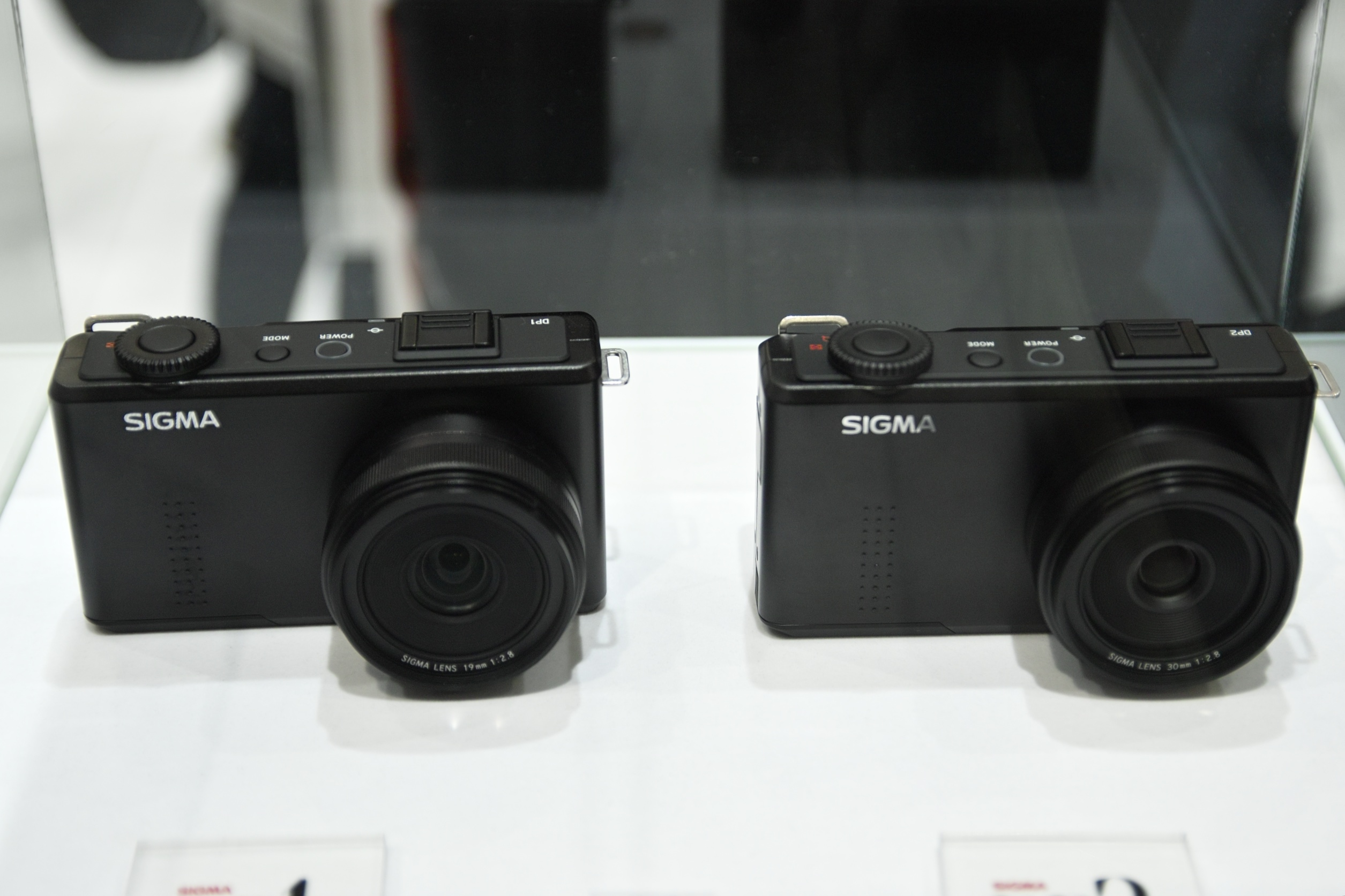 CP+ 2012 DP1 Merrill and DP2 Merrill